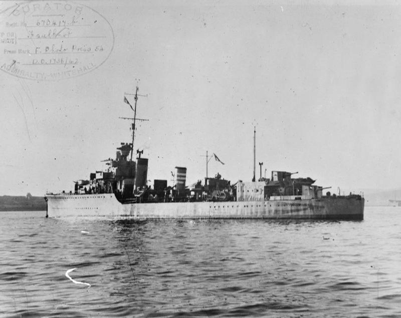 Photograph of British destroyer HMS Faulknor.